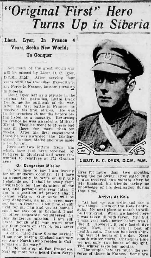 Newspaper clipping from the Winnipeg Evening Tribune talking about Royce Coleman Dyer